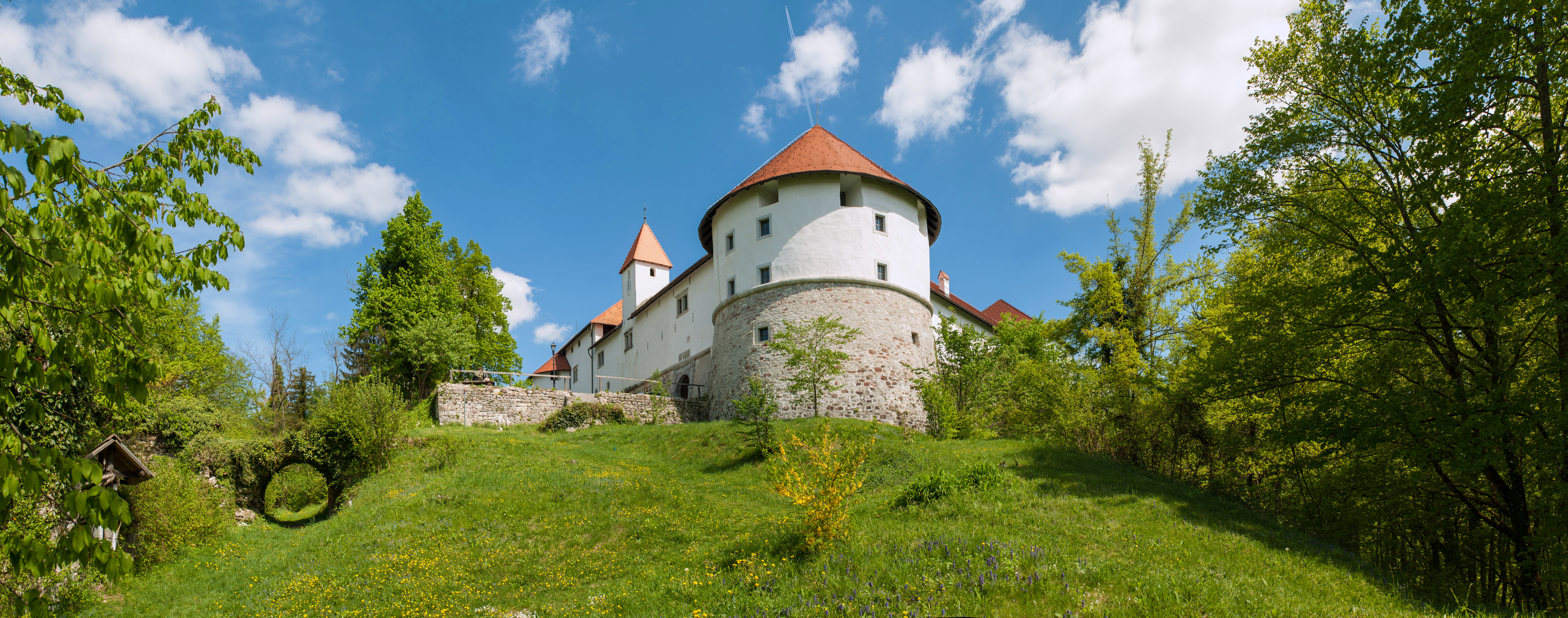 Turjak Castle